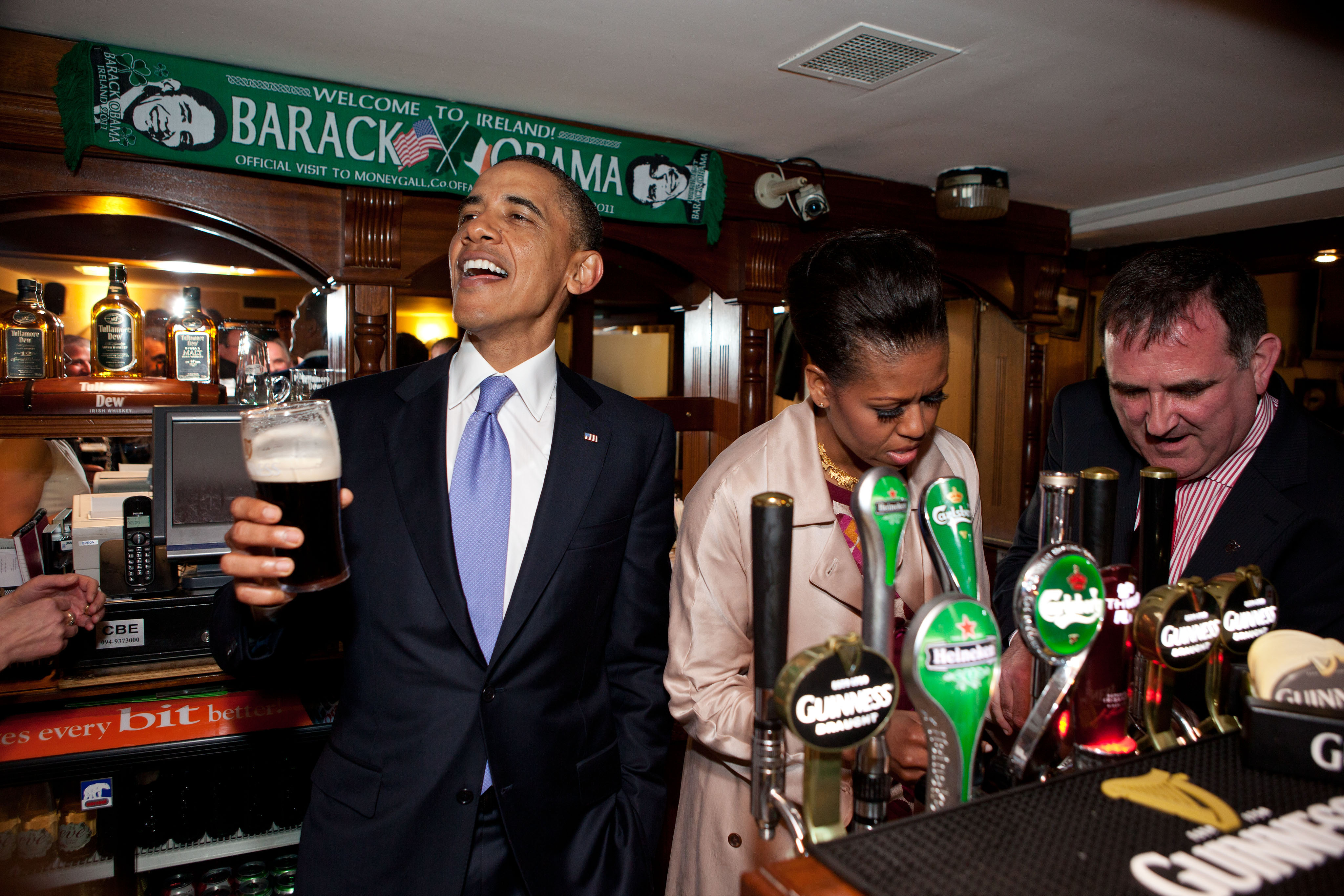 U.S. President Barack Obama talks with pub-goers as First Lady Michelle Obama draws a pint of stout while coached by Ollie Hayes (right) at the Ollie Hayes pub in Moneygall, Ireland, May 23, 2011.